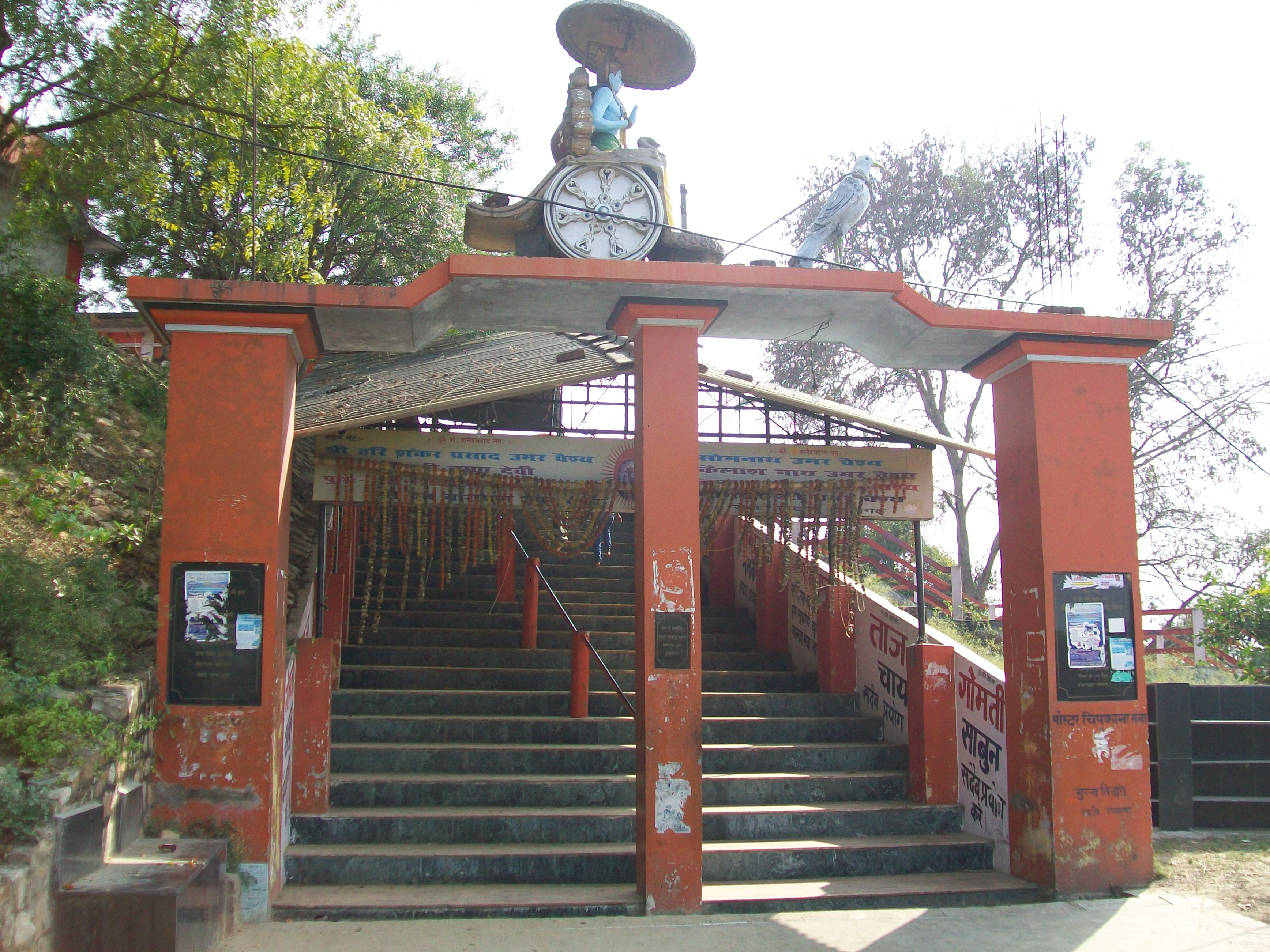 Entrance to Shani Dev Temple, Pratapgarh, Uttar Pradesh